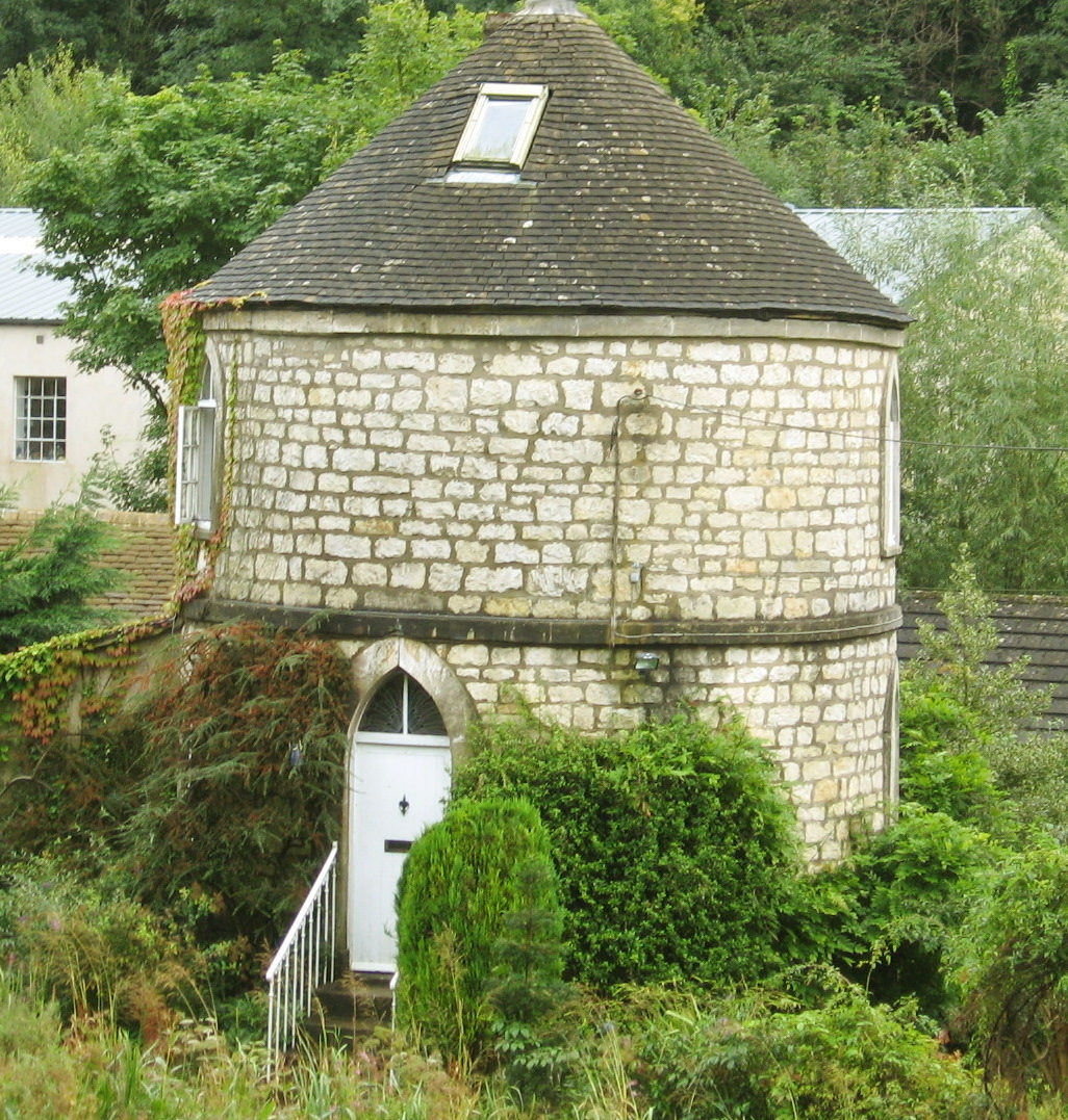 Round house at Chalford, Gloucestershire, England.